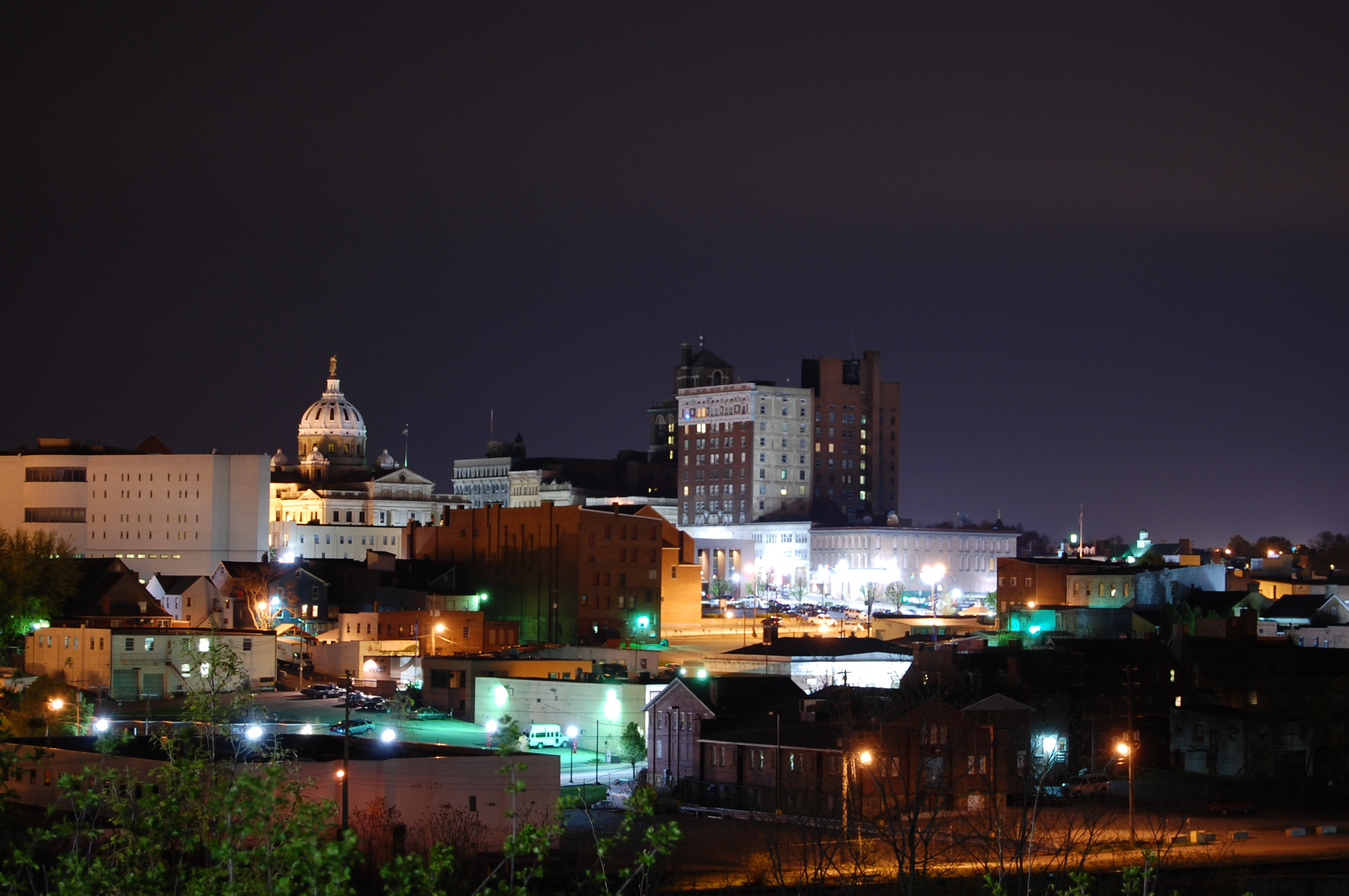 View of downtown Washington from Trinity High School (the dome of the Washington County Courthouse on left and the George Washington Hotel in the middle)